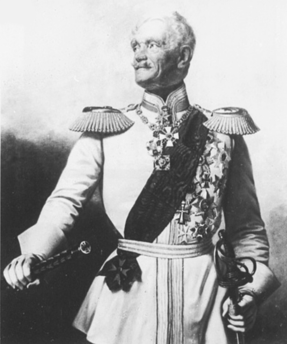 Friedrich Graf von Wrangel